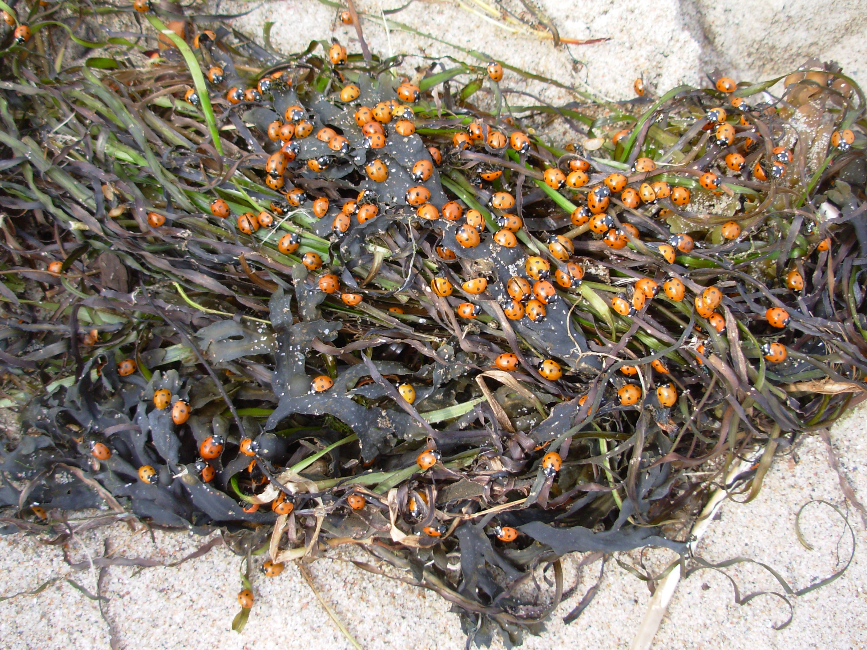 Ladybugs at the Baltic Sea 2009